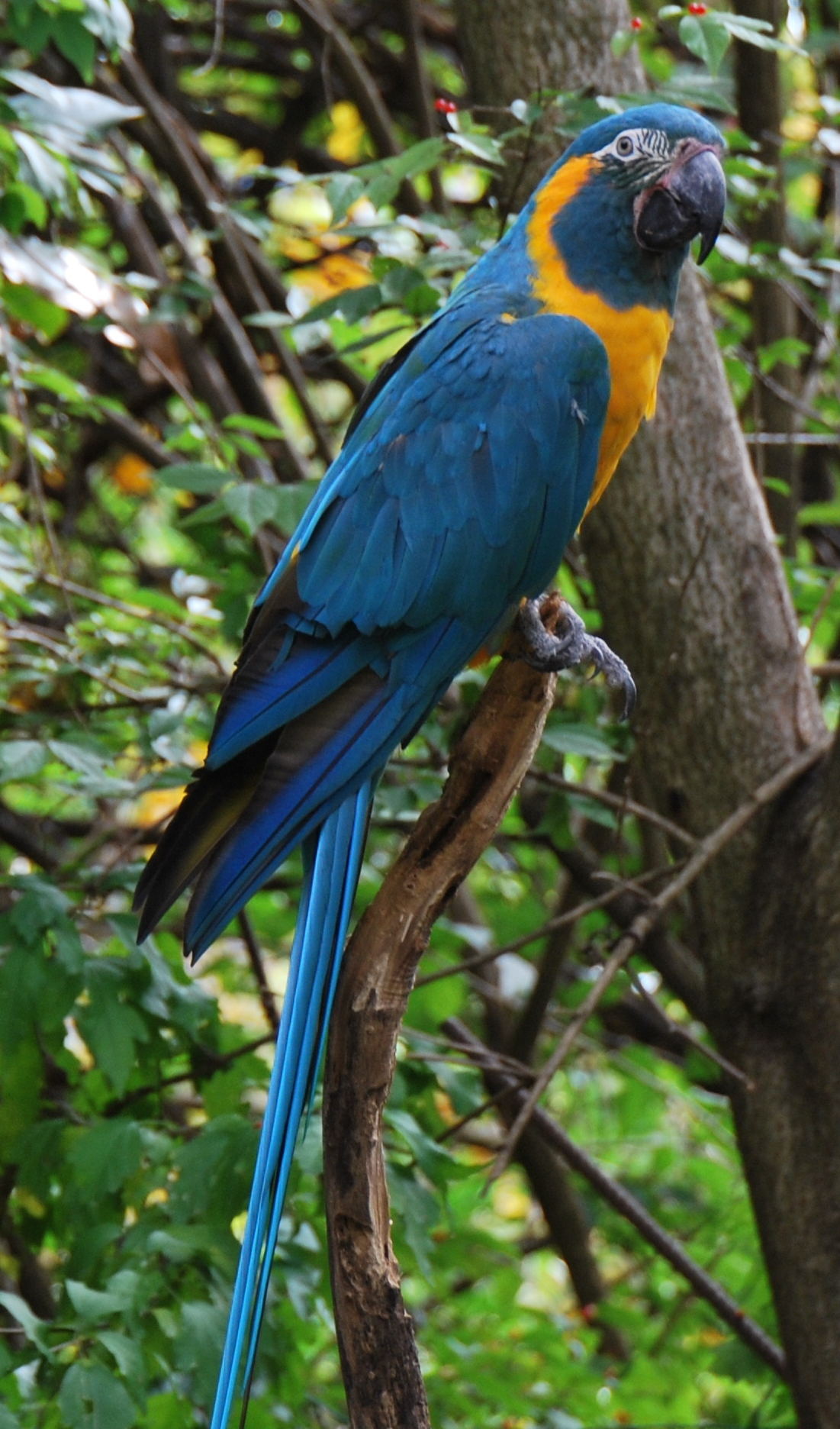 Blue-throated Macaw at Cincinnati Zoo, USA.